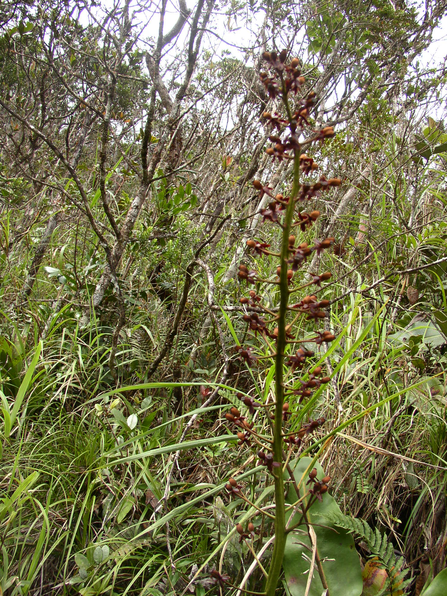 Nepenthes rajah